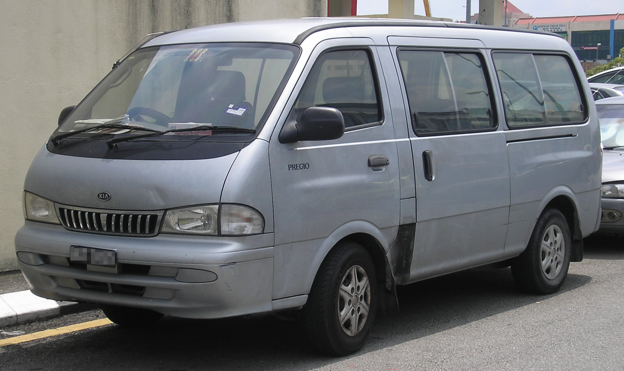 Front quarter view of a first generation Kia Pregio, in Serdang, Selangor, Malaysia.